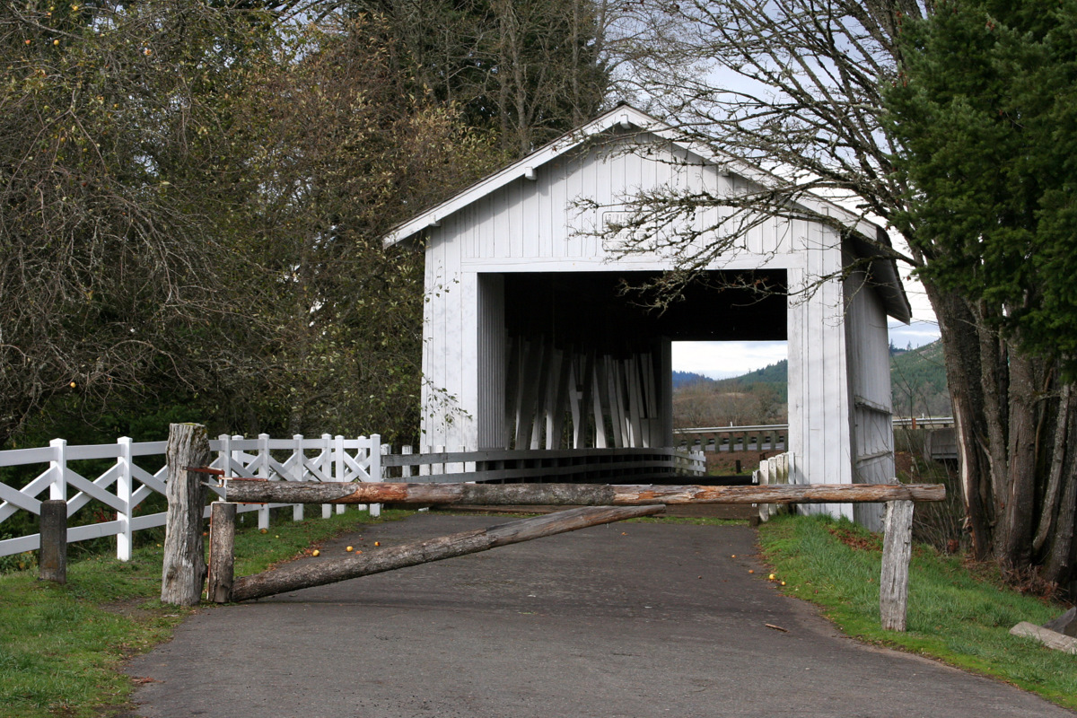 Covered bridge in Crawfordsville, Oregon, USA